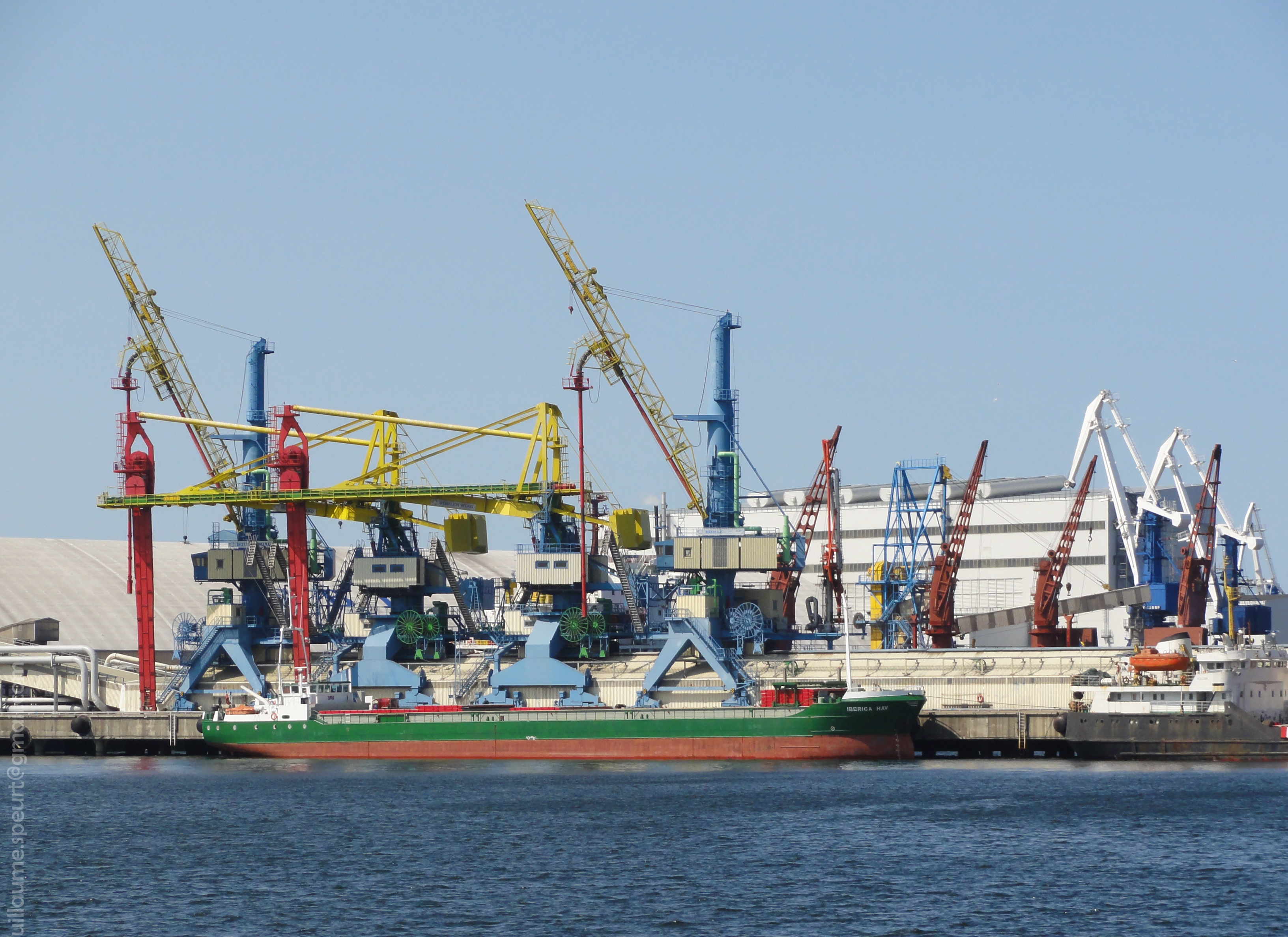 Port of Muuga, Estonia